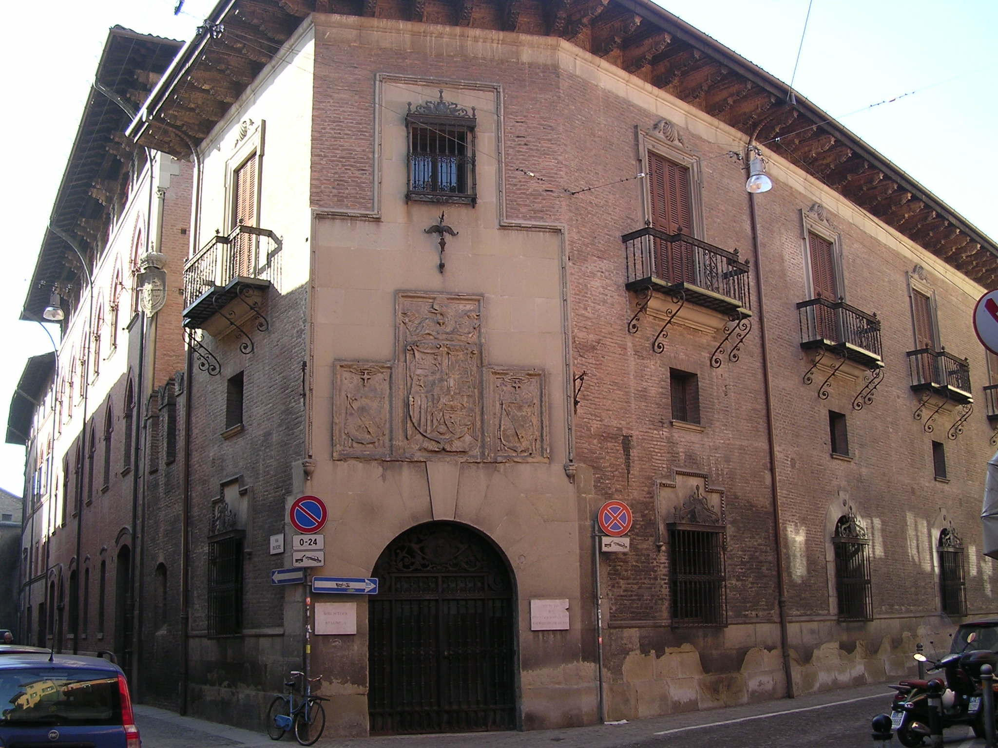 The Collegio di Spagna, a historic university college, originally founded to support Spanish students in Bologna, Italy.